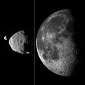 PIA17351: Illustration Comparing Apparent Sizes of Moons This image from NASA's Mars rover Curiosity provides a comparison for how big the moons of Mars appear to be, as seen from the surface of Mars, in relation to the size that Earth's moon appears to be when seen from the surface of Earth. This illustration provides a comparison for how big the moons of Mars appear to be, as seen from the surface of Mars, in relation to the size that Earth's moon appears to be when seen from the surface of Earth. Earth's moon actually has a diameter more than 100 times greater than the larger Martian moon, Phobos. However, the Martian moons orbit much closer to their planet than the distance between Earth and Earth's moon. Deimos, at far left, and Phobos, beside it, are shown together as they actually were photographed by the Mast Camera (Mastcam) NASA's Mars rover Curiosity on Aug. 1, 2013. The images are oriented so that north is up. The size-comparison image of Earth's moon, on the right, is also oriented with north up. Deimos has a diameter of 7.5 miles (12 kilometers) and was 12,800 miles (20,500 kilometers) from the rover at the time of the image. Phobos has a diameter 14 miles (22 kilometers) and was 3,900 miles (6,240 kilometers) from the rover at the time of the image. Earth's moon has a diameter of 2,159 miles (3,474 kilometers) and is typically about 238,000 miles (380,000 kilometers) from an observer on Earth. Malin Space Science Systems, San Diego, built and operates Mastcam. NASA's Jet Propulsion Laboratory manages the Mars Science Laboratory mission and the mission's Curiosity rover for NASA's Science Mission Directorate in Washington. The rover was designed, developed and assembled at JPL, a division of the California Institute of Technology in Pasadena. For more about NASA's Curiosity mission, visit and